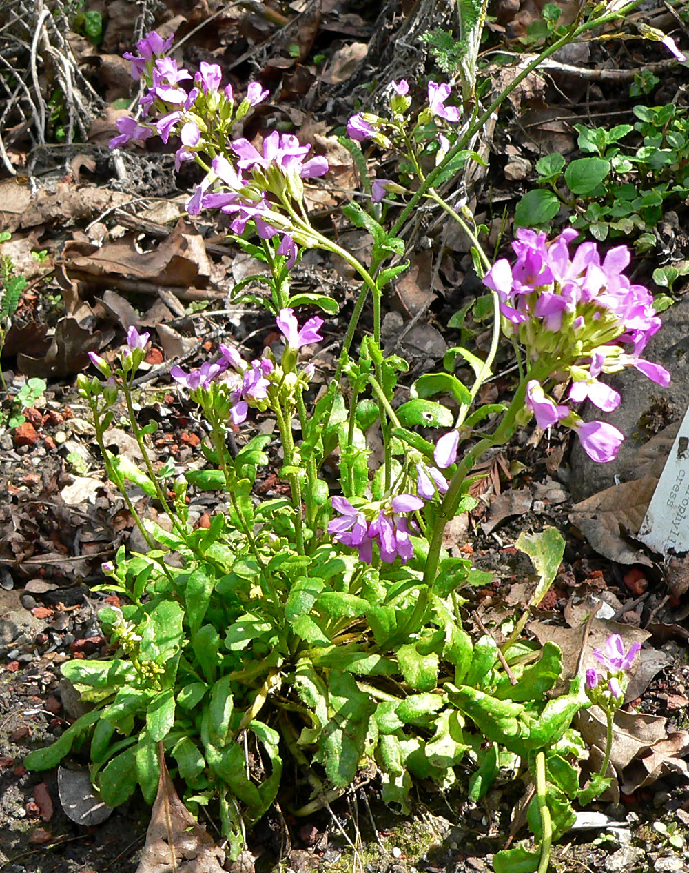 Photo of Arabis blepharophylla at the Regional Parks Botanic Garden, Berkeley, California